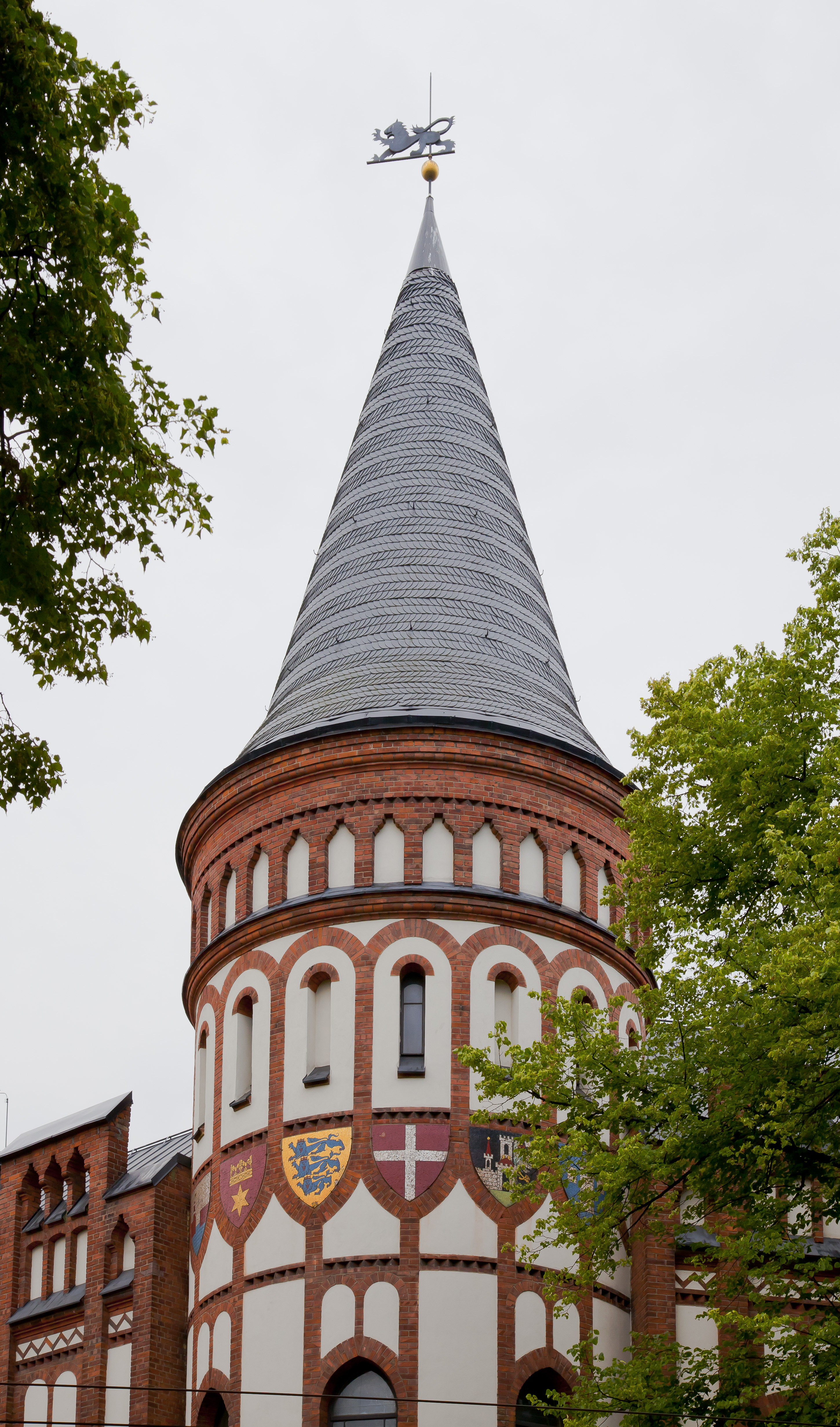 Eesti Pank Museum (Museum of the Bank of Estonia), Tallinn, Estonia